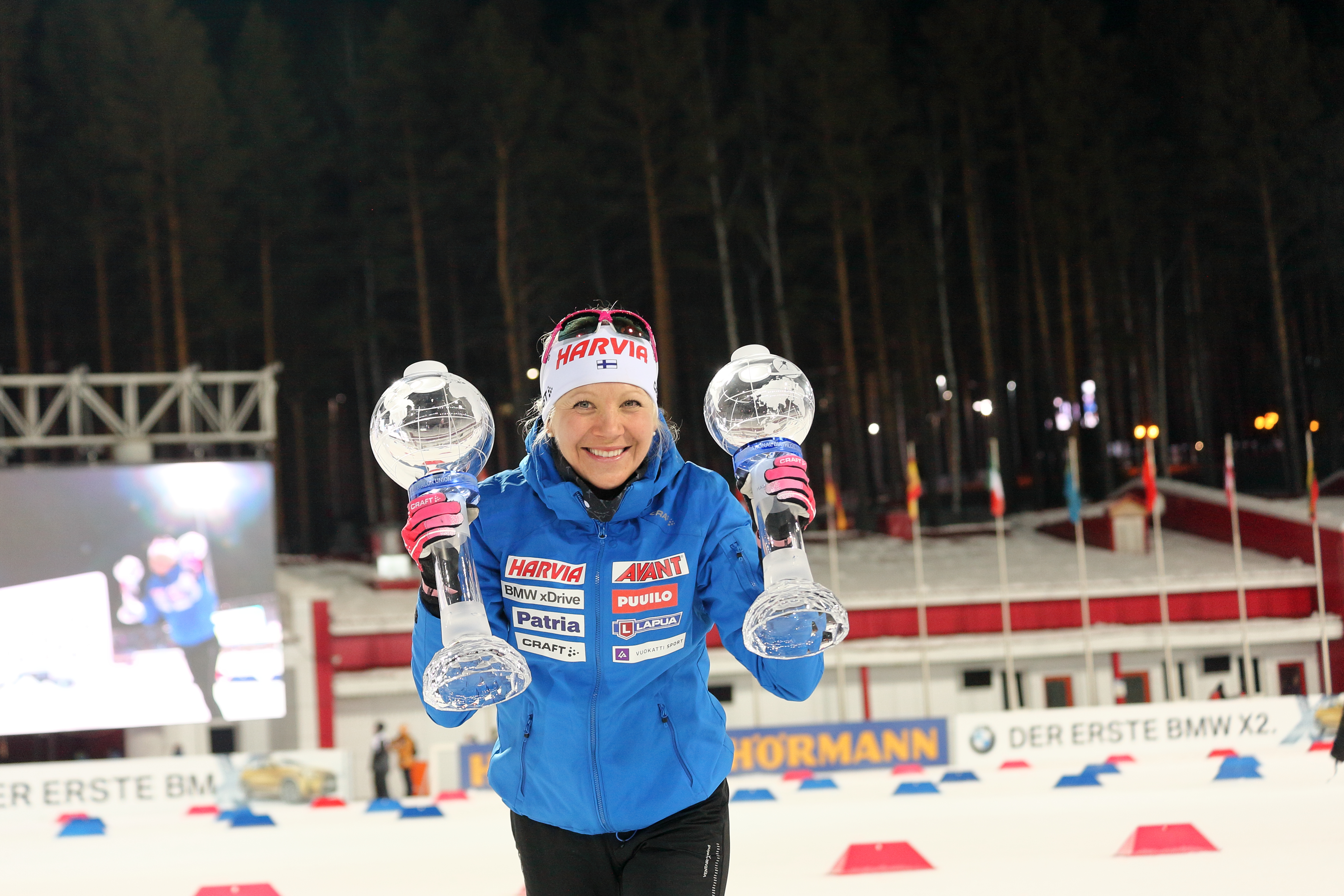 IBU Big and Small Crystal Globes